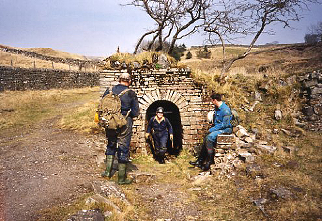 Brownley Hill horse level mouth The horse level adit was the main access to the extensive workings of the Brownley Hill lead mine. The mine is part of the maze of interconnected mine workings under the head of the Nent valley.